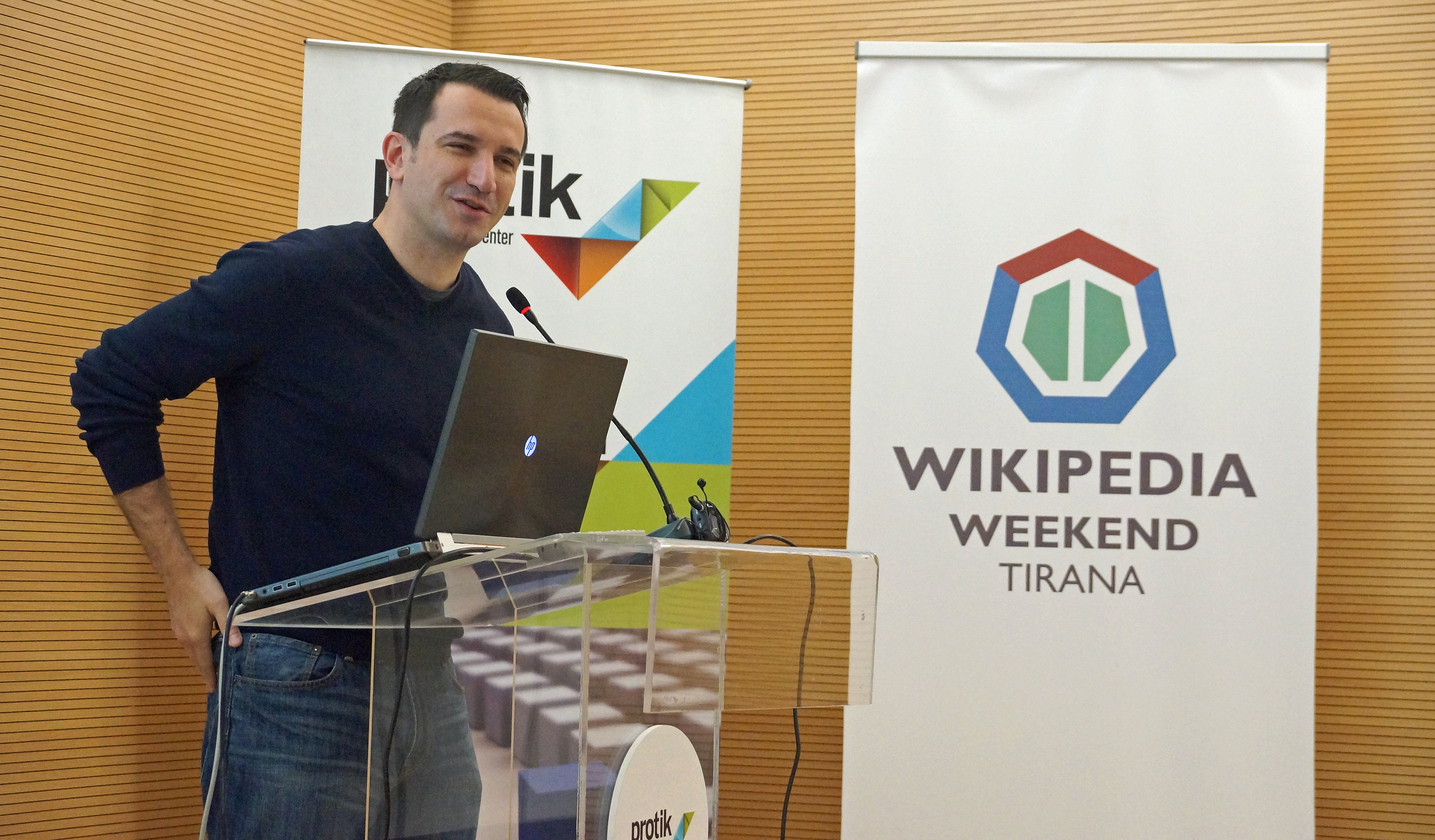 Erion Veliaj, Mayor of Tirana, talking at Wikipedia Weekend Tirana 2015